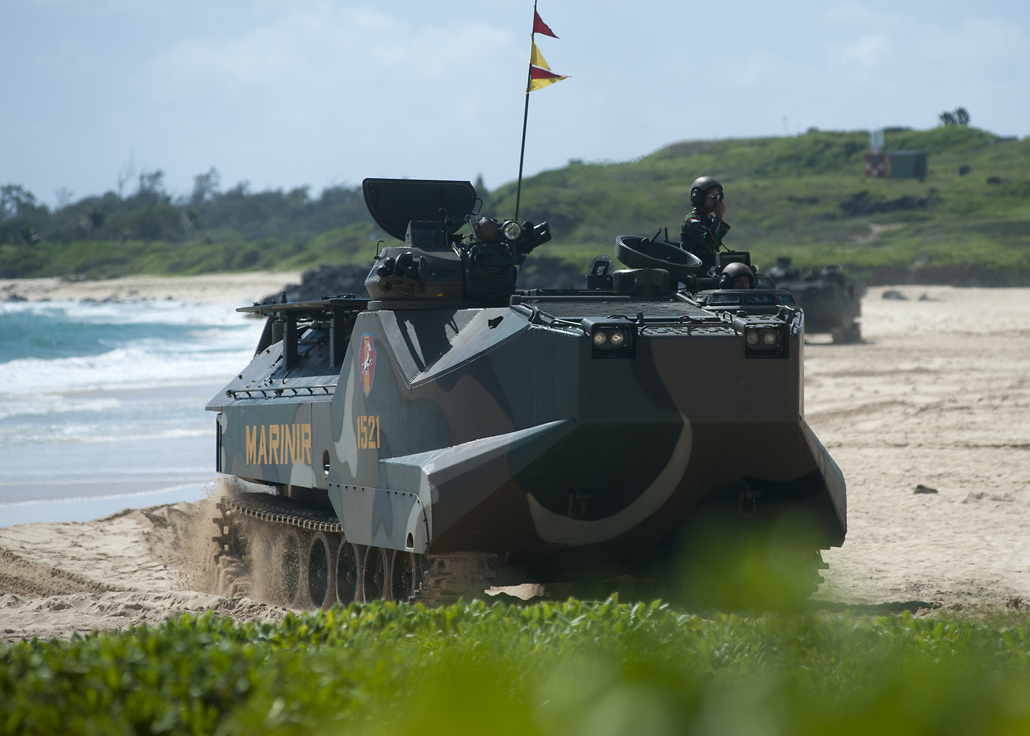 An Indonesian amphibious assault vehicle participates in an amphibious beach assault exercise at Pyramid Rock Beach during Rim of the Pacific (RIMPAC) Exercise 2014. Twenty-two nations, 49 ships and six submarines, more than 200 aircraft and 25,000 personnel are participating in RIMPAC from June 26 to Aug. 1 in and around the Hawaiian Islands and Southern California. The world's largest international maritime exercise, RIMPAC provides a unique training opportunity that helps participants foster and sustain the cooperative relationships that are critical to ensuring the safety of sea lanes and security on the world's oceans. RIMPAC 2014 is the 24th exercise in the series that began in 1971. (U.S. Navy photo by Mass Communication Specialist 2nd Class Tiarra Fulgham/Released)